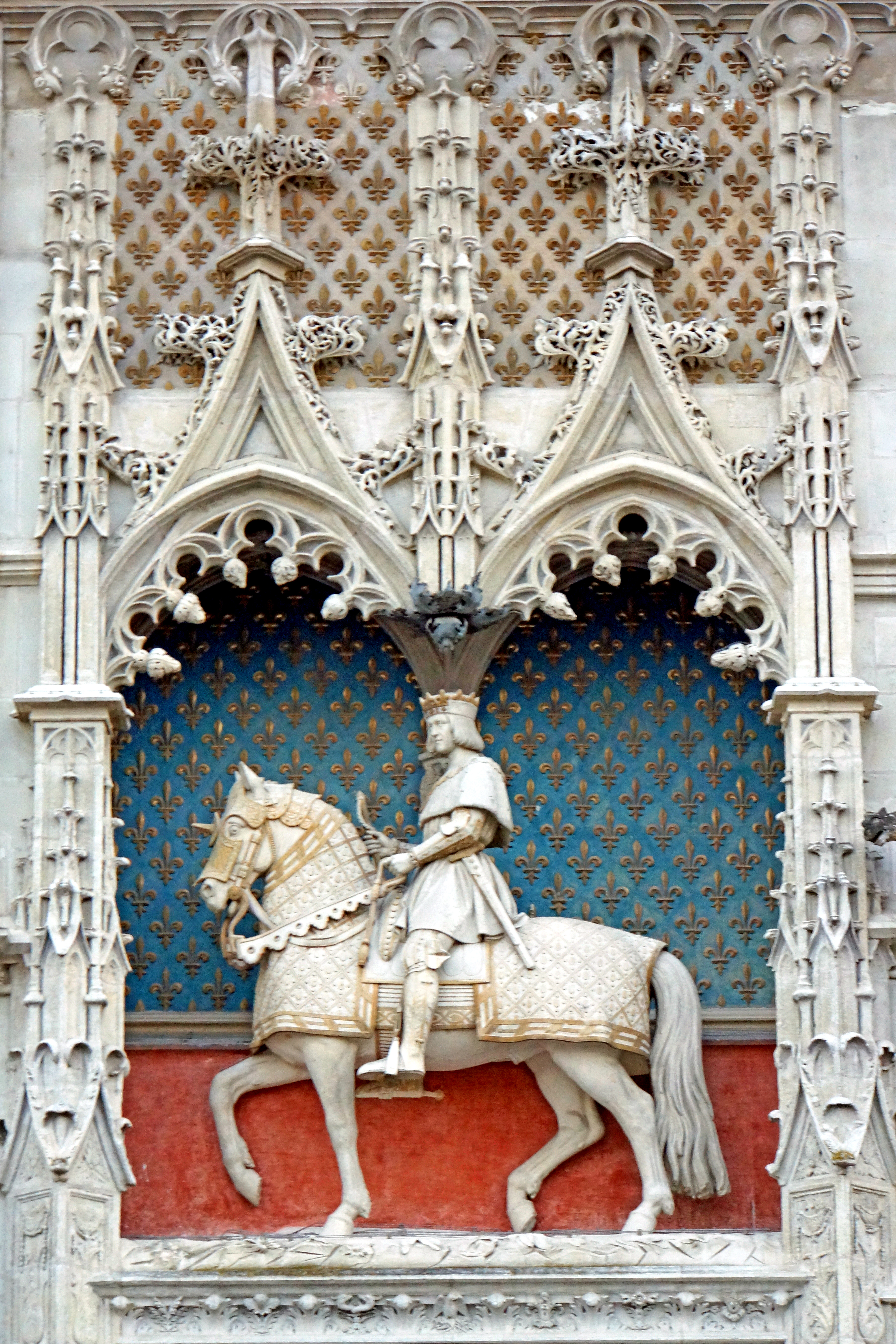 PLEASE, NO invitations or self promotions, THEY WILL BE DELETED. My photos are FREE to use, just give me credit and it would be nice if you let me know, thanks. This wing, of red brick and grey stone, forms the main entrance to the château, and features a statue of the mounted king, Louis XII, above the entrance.